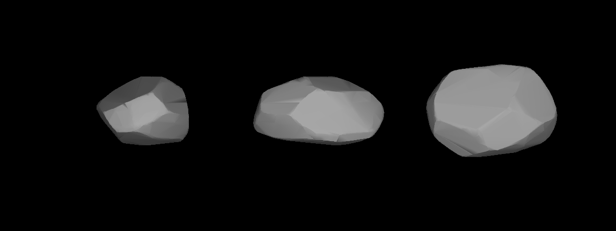 A three-dimensional model of 816 Juliana that was computed using light curve inversion techniques.